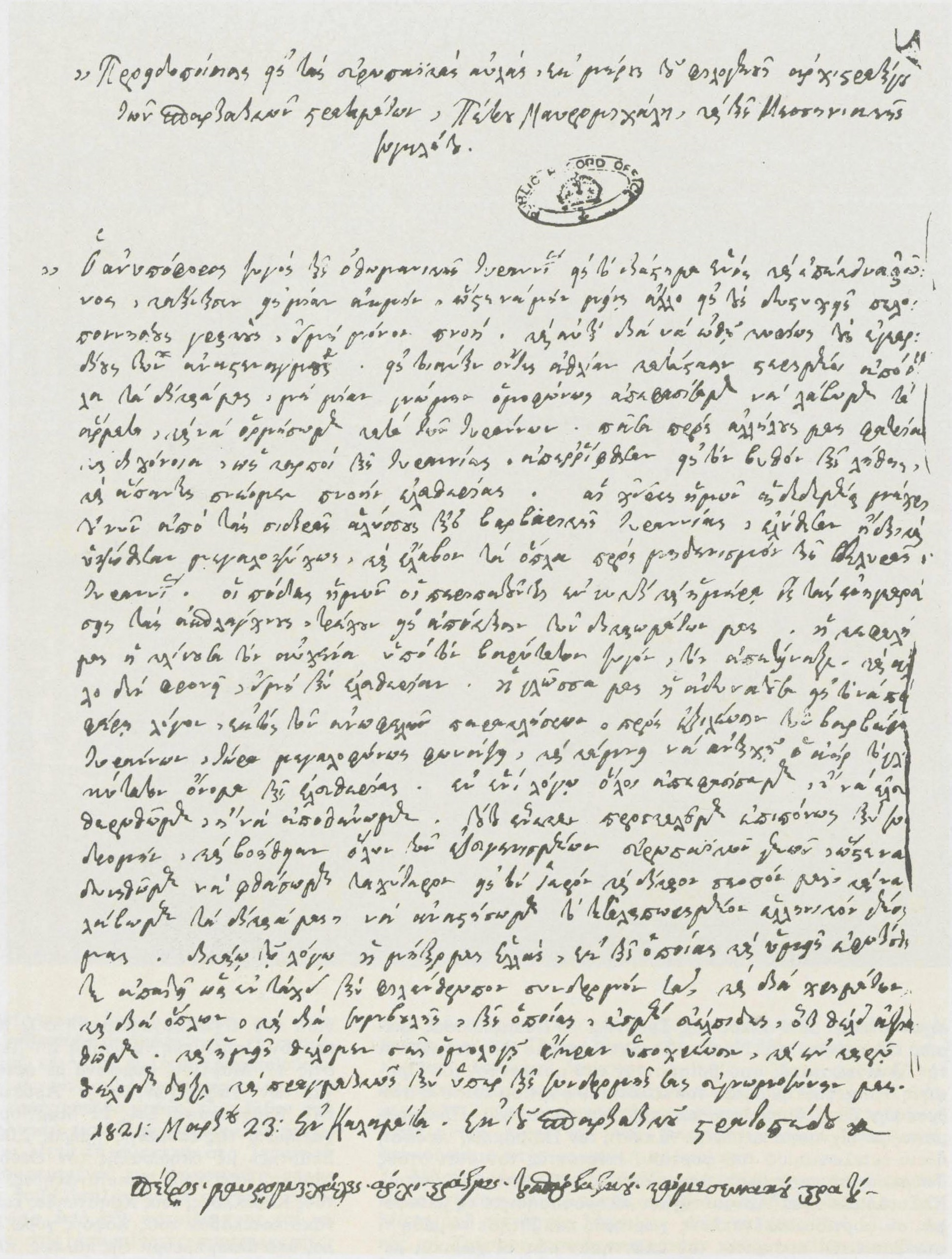 An "Appeal to the European Courts", signed by Petros Mavromichalis and dated 23th of March 1821.